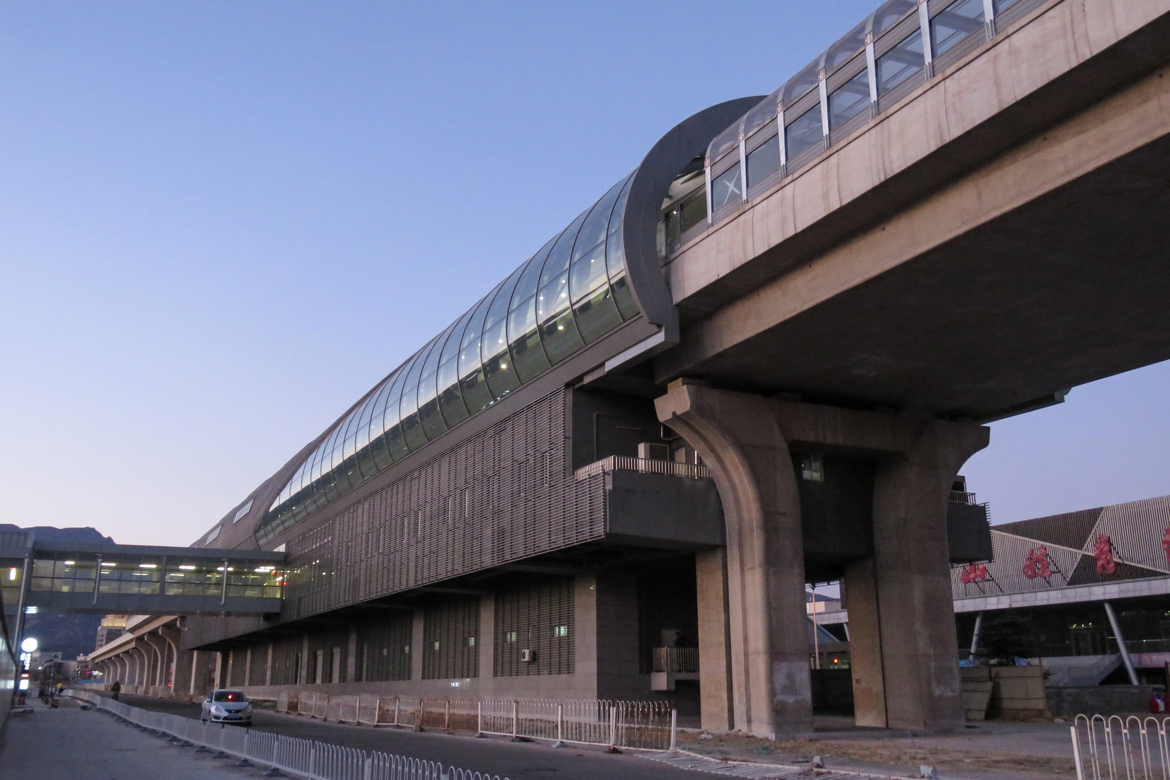 Located near Yanshan Gymnasium.